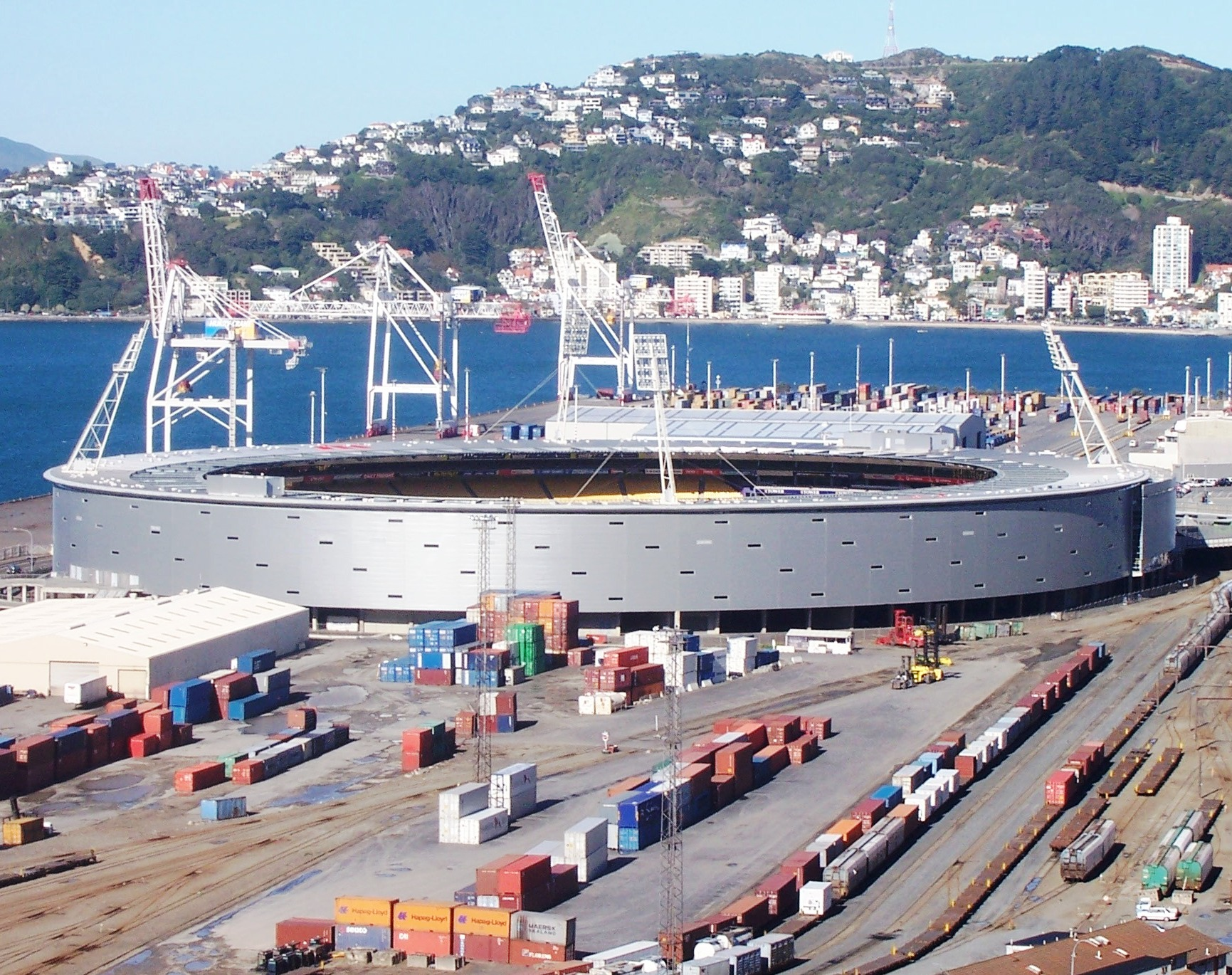 Westpac Stadium, as viewed from Wadestown, Wellington, New Zealand..